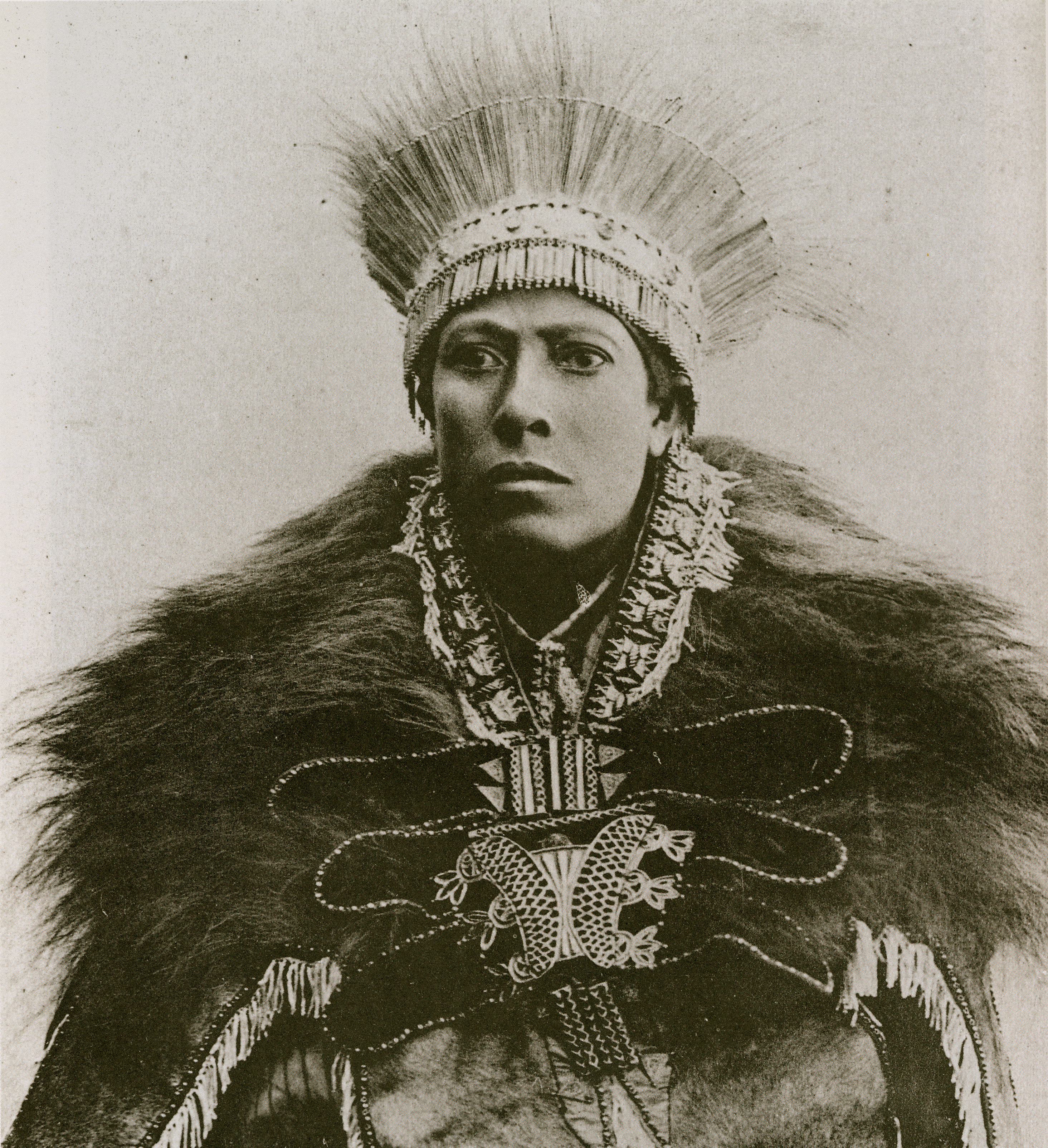 Dejazmatch Balcha Aba Nefso, General of Menelik II; played a decisive role at the Battle of Adwa against Italy.